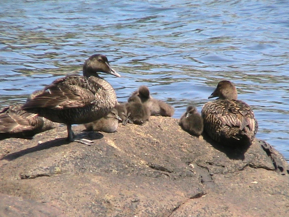 3 Adult Females and 6 ducklings sitting on the rocks at Biddeford Pool, ME. In the water were at least another 14 ducklings and 6 adult females. Video available at